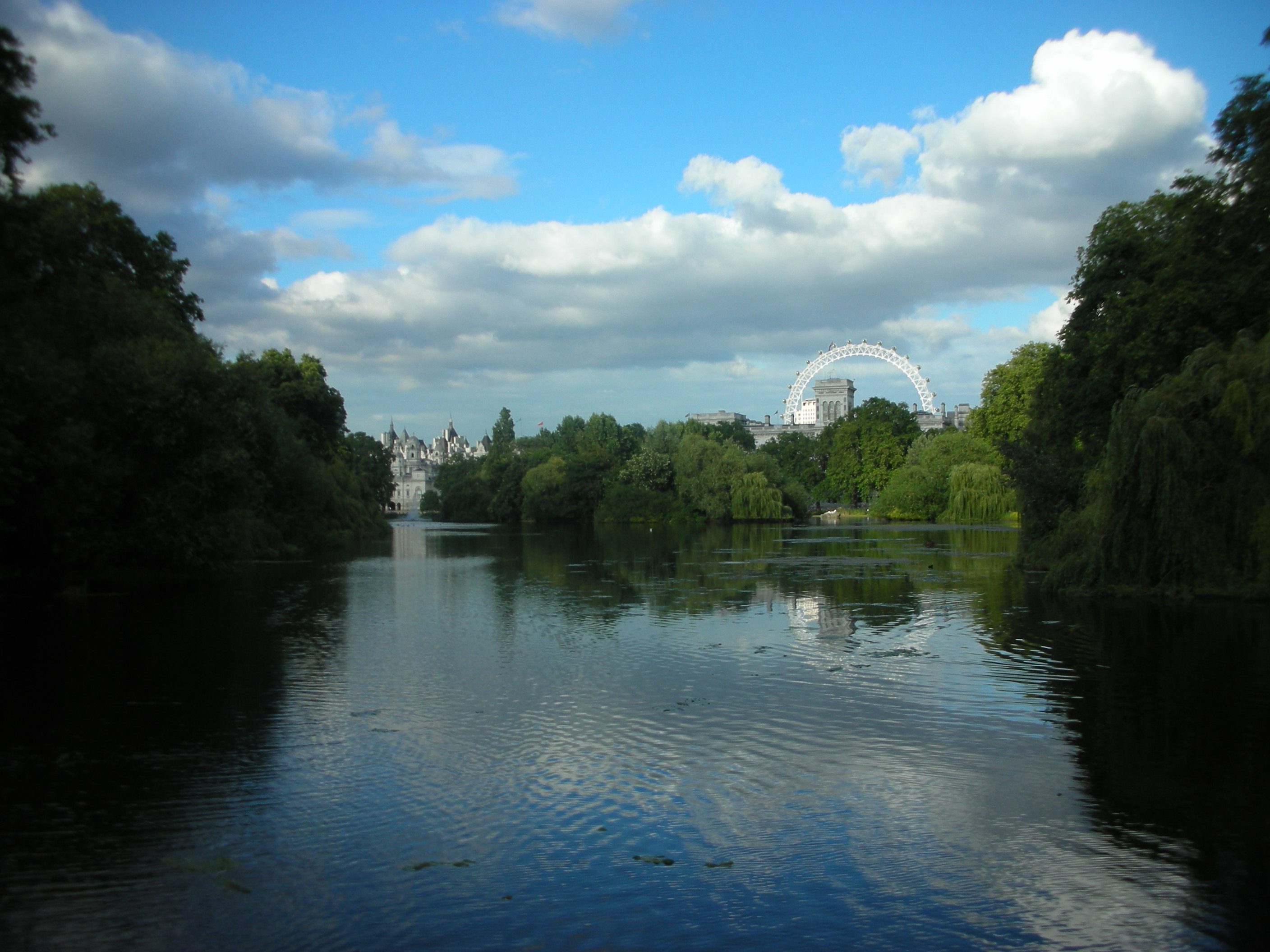 St. James's Park Lake, the London Eye and the Horse Guards's building can be seen in the background.